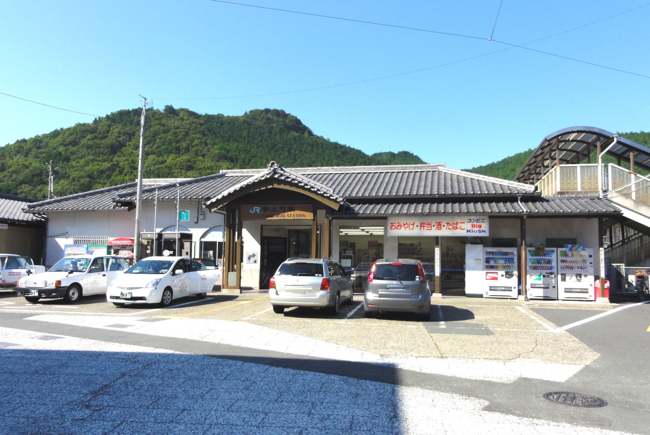 Unomachi Station